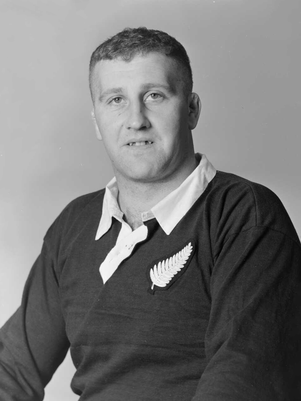 Photograph of rugby player Brian Muller, also known by the nicknames Jas and Jazz, taken by Crown Studio Ltd of Wellington.